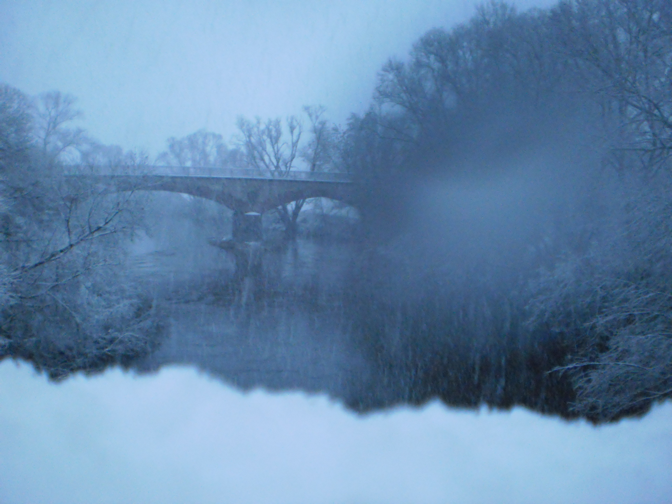 First snow in November on 2015-11-22, near the village of Bellnhausen (Fronhausen), Germany.